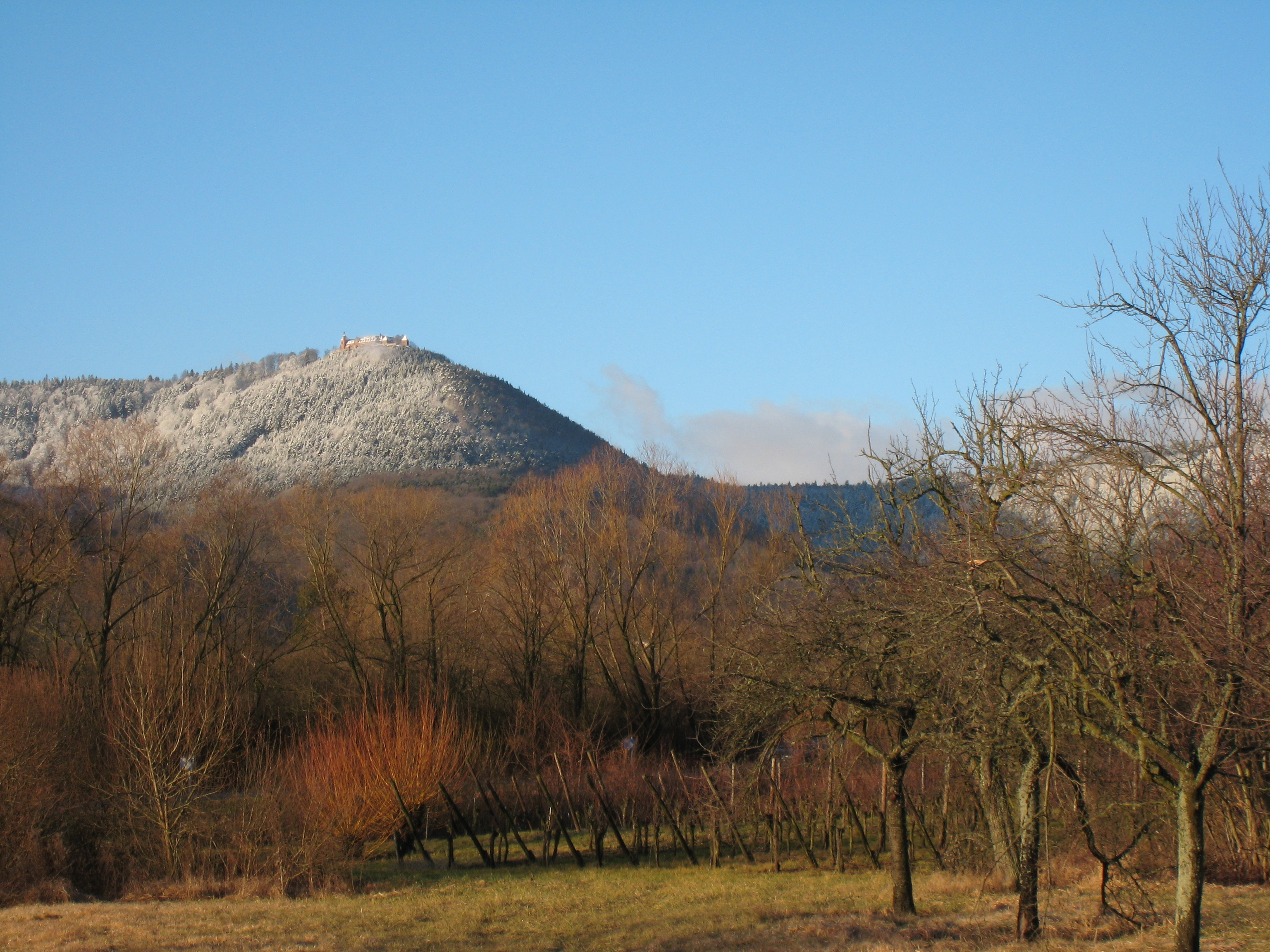 Mont Sainte-Odile in the winter time, Ottrott, Alsace